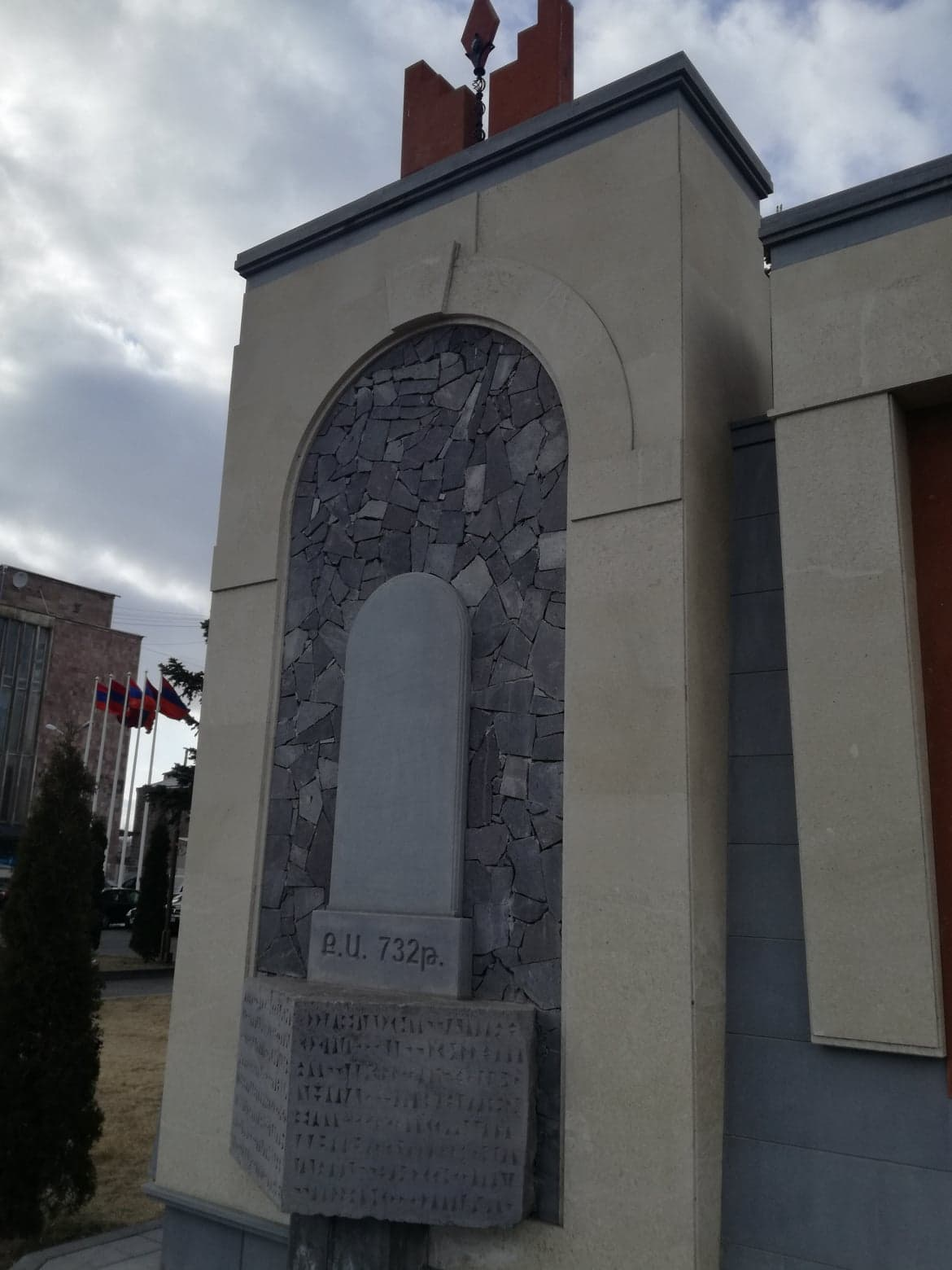 Gavar city cuneiform inscription